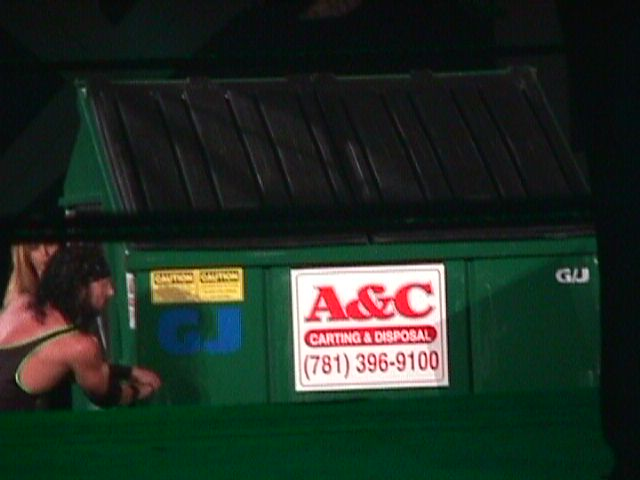 X-Pac on the lose. Fleet Center, Boston ~